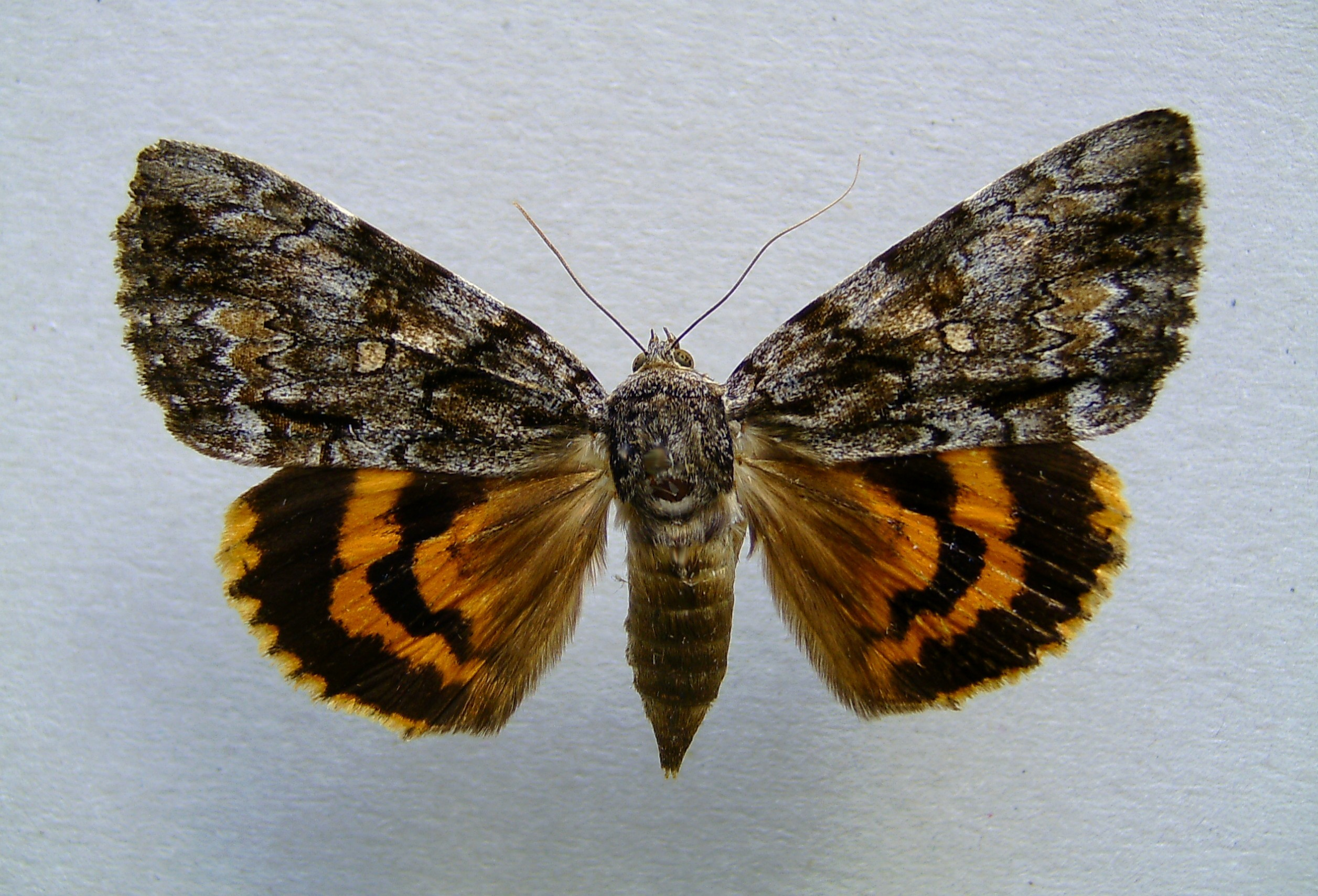 Catocala palaeogama, Montérégie